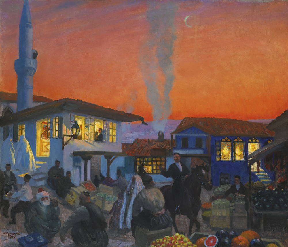 Bakhchisarai